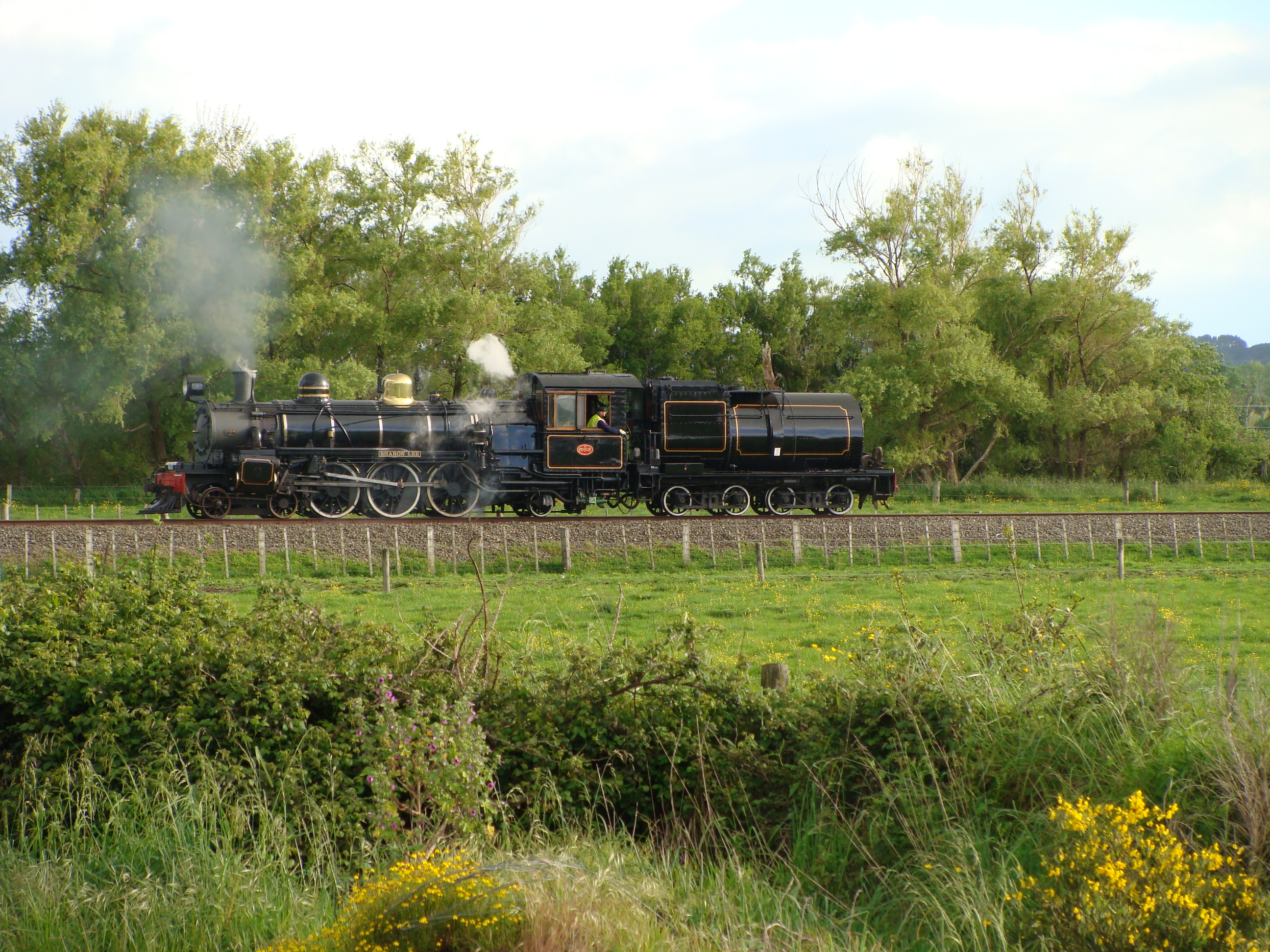 NZR AB class No. 663 "Sharon Lee" running backwards around the Woodville balloon loop, in preparation to take a passenger excursion back through the Manawatu Gorge.